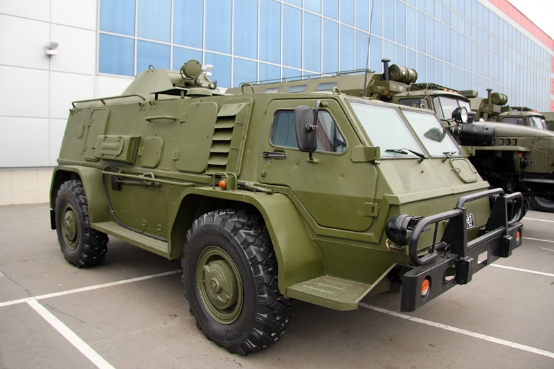 Russian high-mobility multipurpose military vehicle GAZ-39371 at the VTTV-Omsk-2009 exhibition.